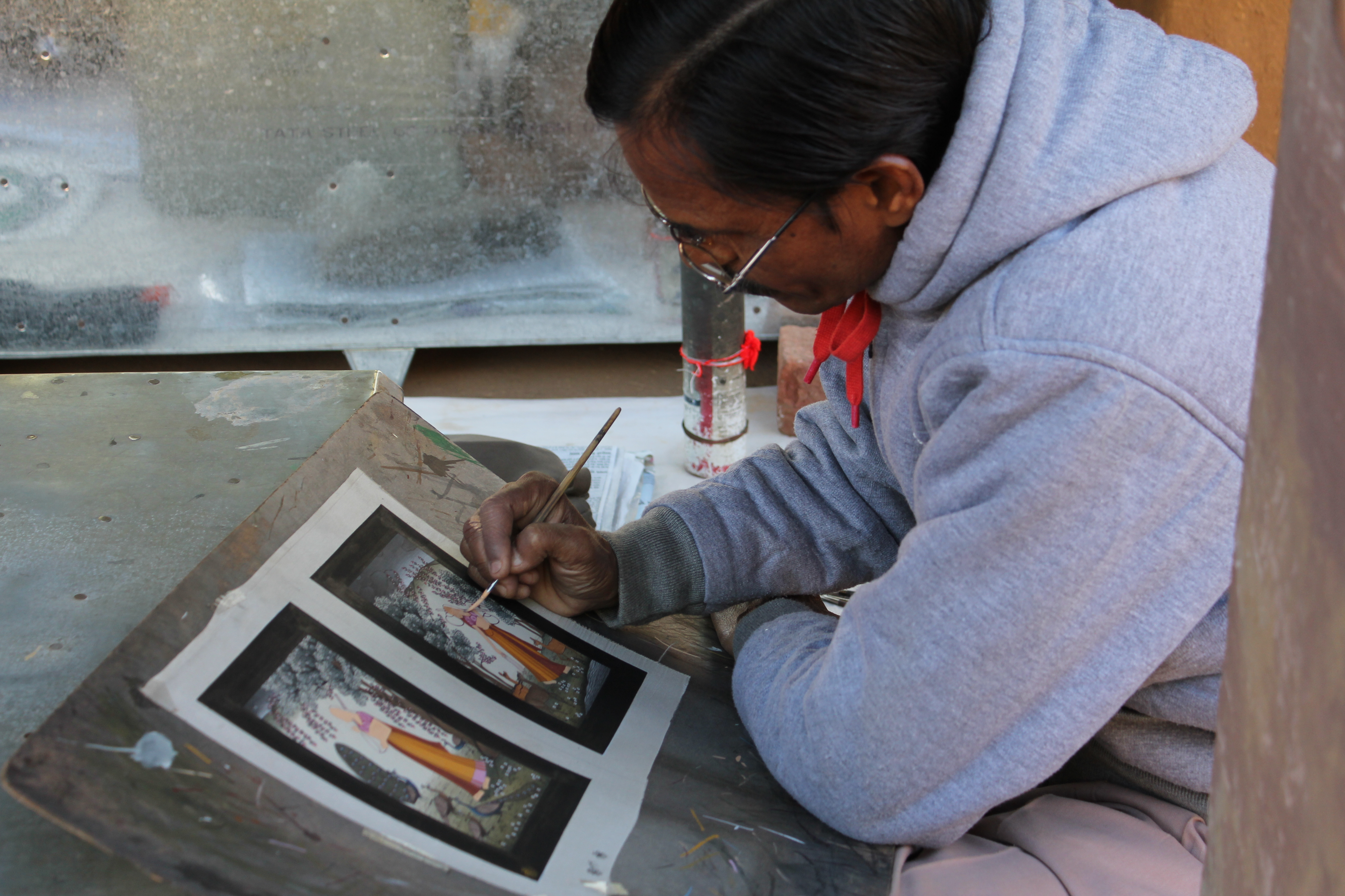 Mewari painting is a traditional rajasthani painting. This painting includes traditional dyes and designs and has a lot of detailing. The following is an image of an artist at work in shilpgram , udaipur